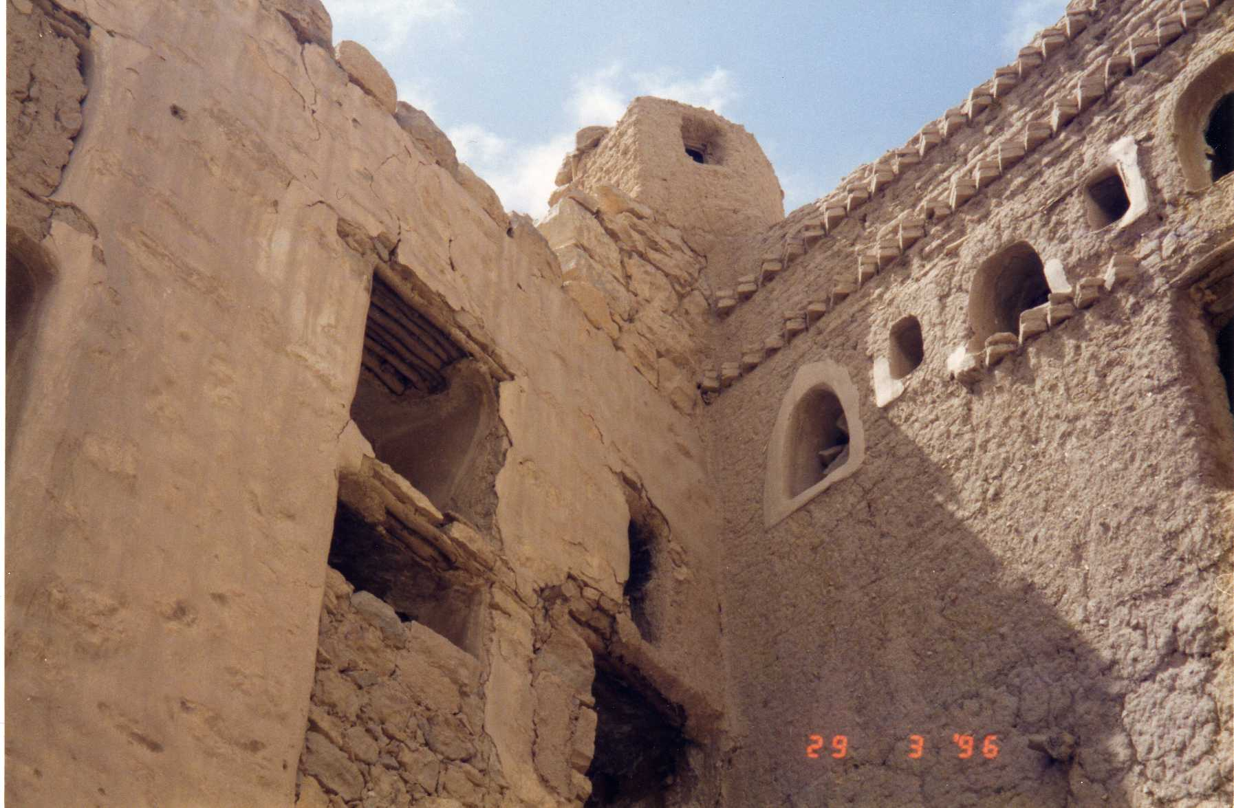 Old city of Sa'ada, Yemen. Mud dwelling. Picture from my private archive, taken in march 1996